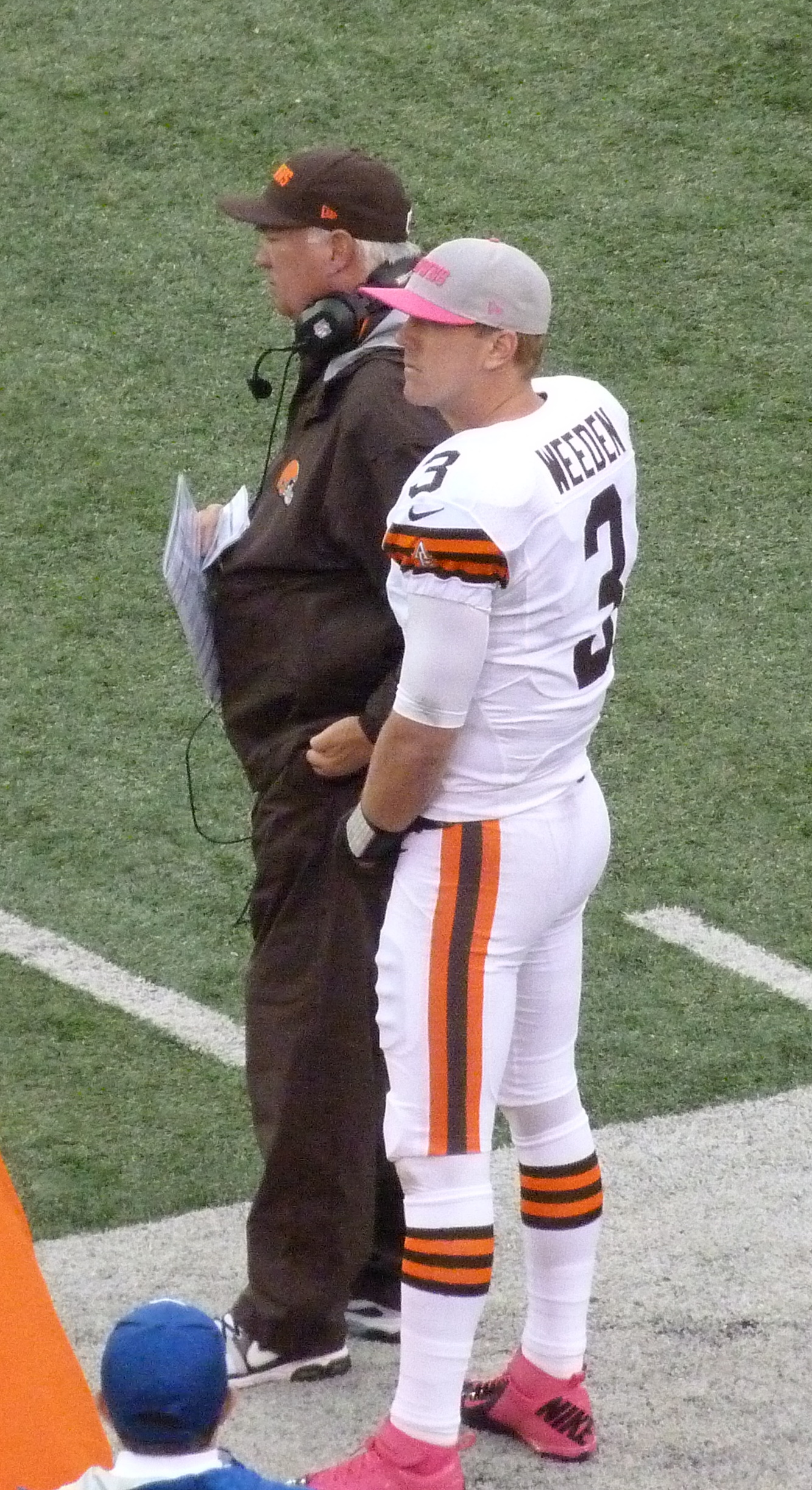 Brandon Weeden on the sidelines in a game against the Giants, 2012